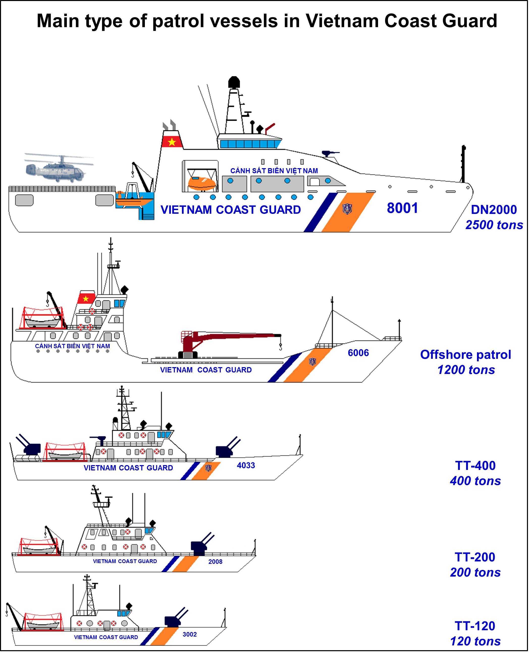 Vietnam Marine Police vessel main patrol type